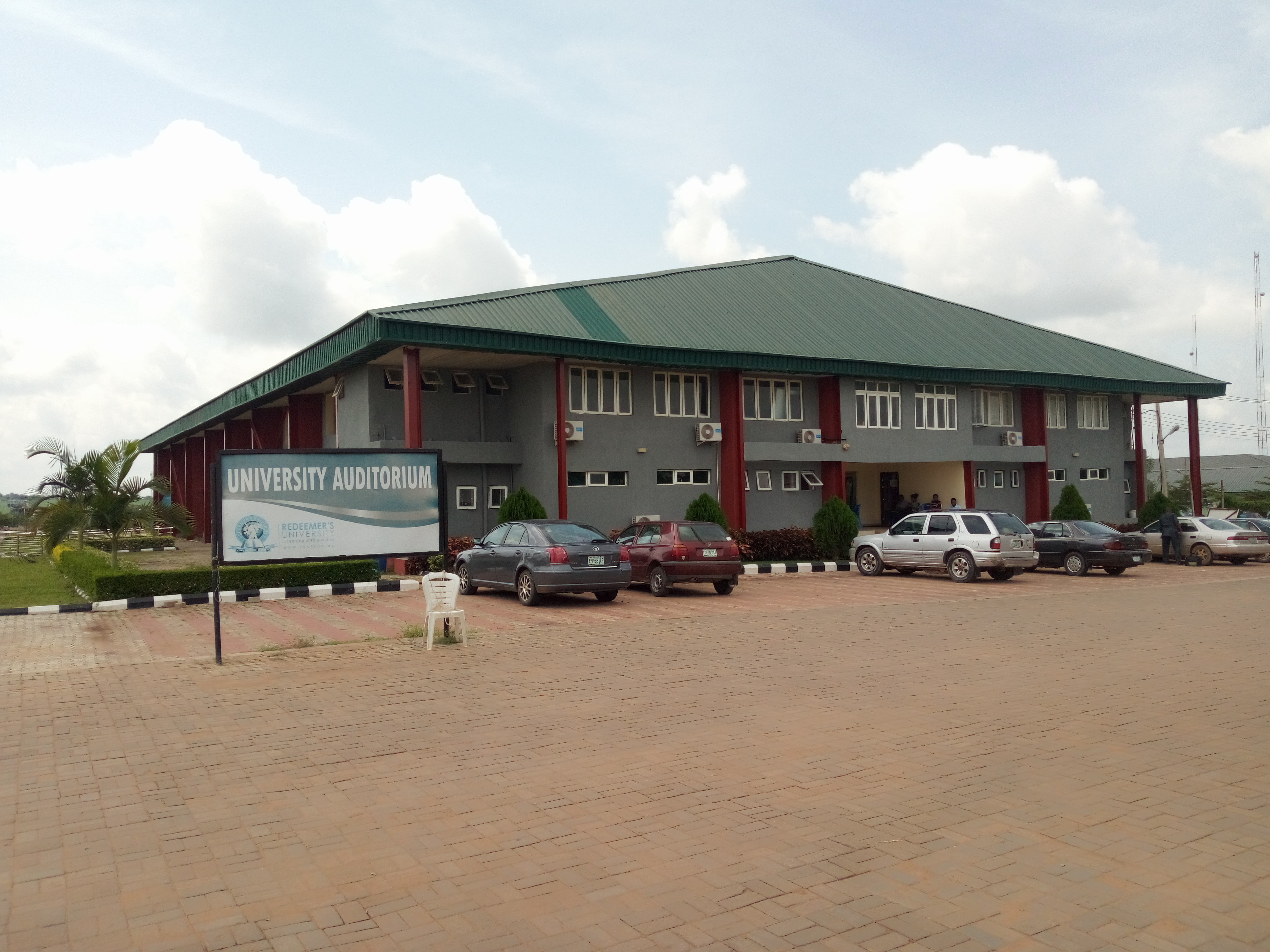 sites from Redeemers University Nigeria.